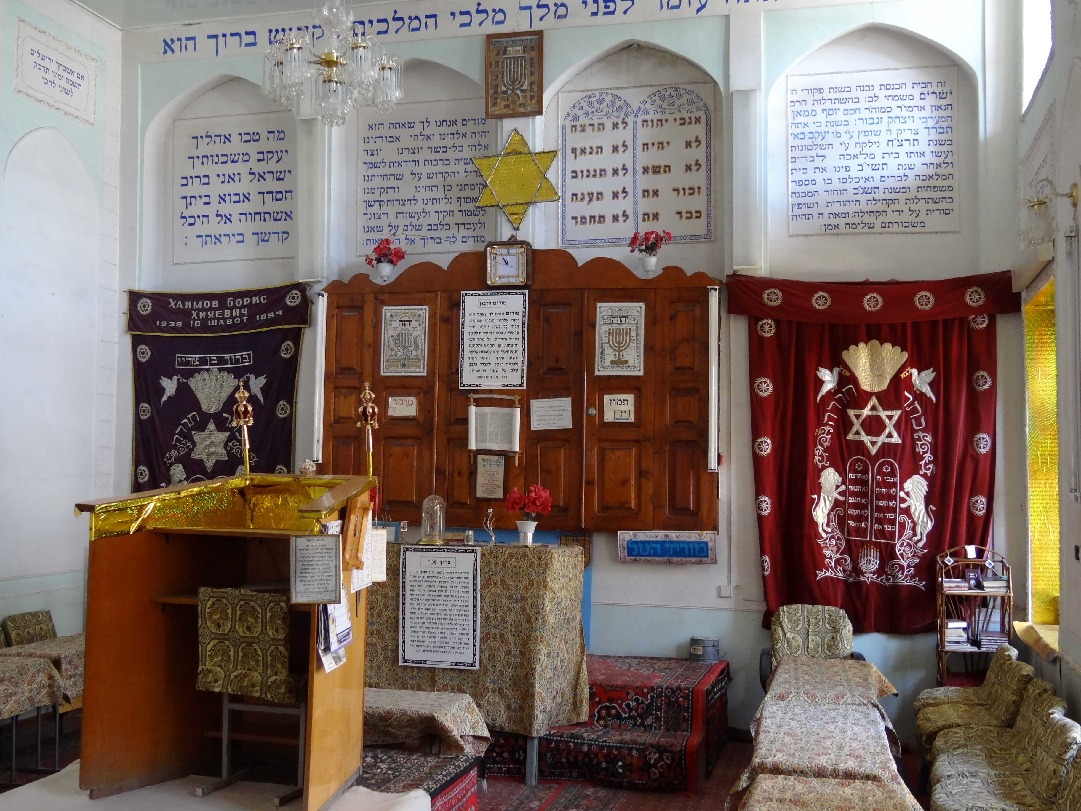 Interior of Jewish Synagogue - Old City - Bukhara - Uzbekistan - 02